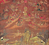 Yuzu Nenbutsu Engi-e, Anrakuji, Tawaramoto, Nara, Japan